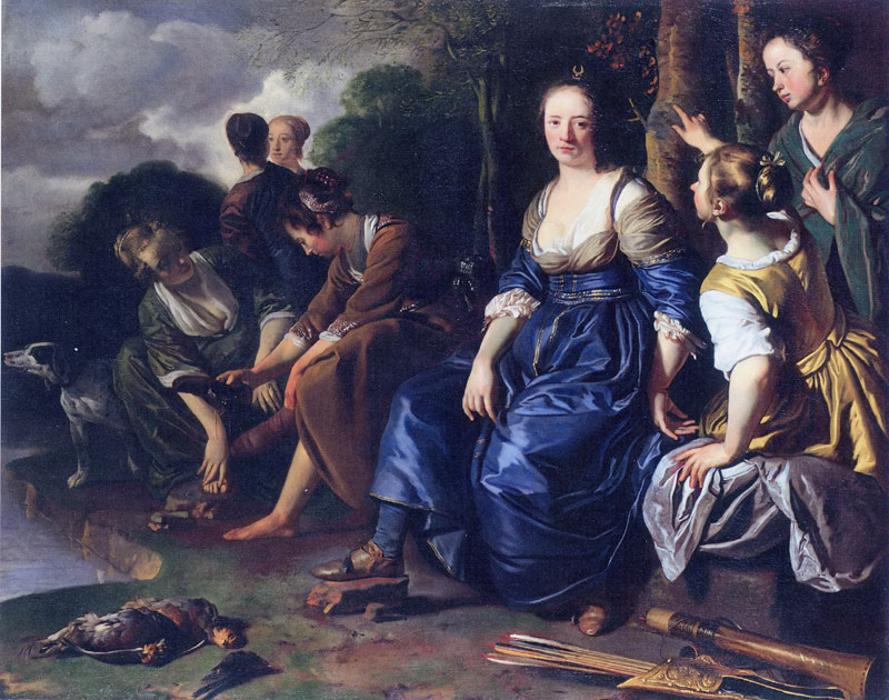 Diana mit ihren Nymphen (Diana with her nymphs)